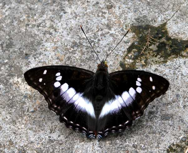 Indian Purple Emperor Mimathyma ambica taken at Namdapha Tiger Reserve, Arunachal Pardesh, India.